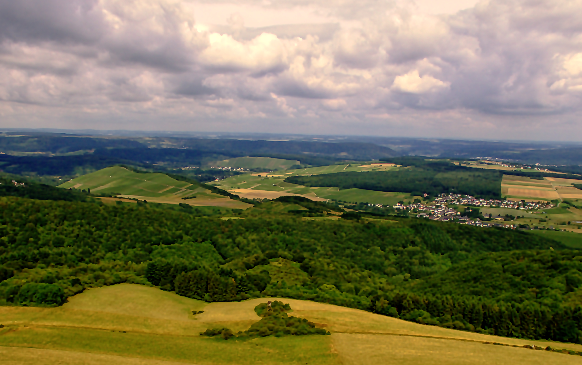 Vineyard Wiltinger Scharzhofberg (left vineyard)